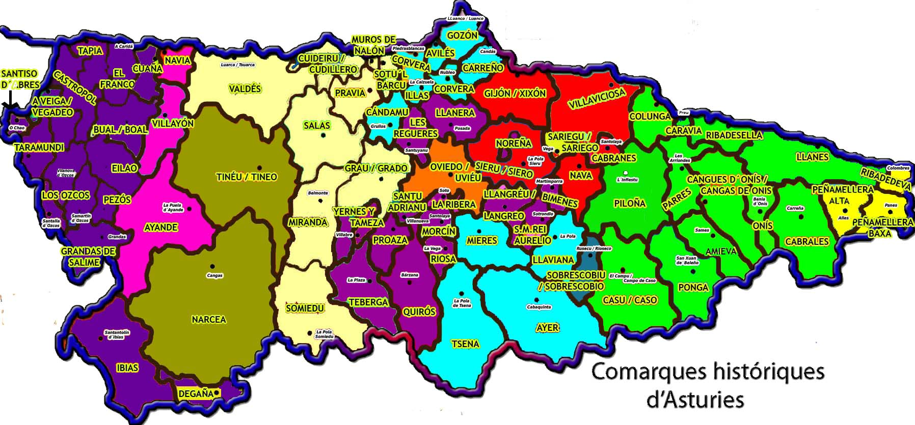 Asturias Regions